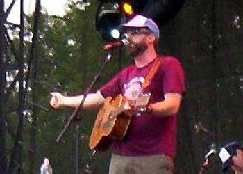 CAKE - John McCrea - Lollapalooza